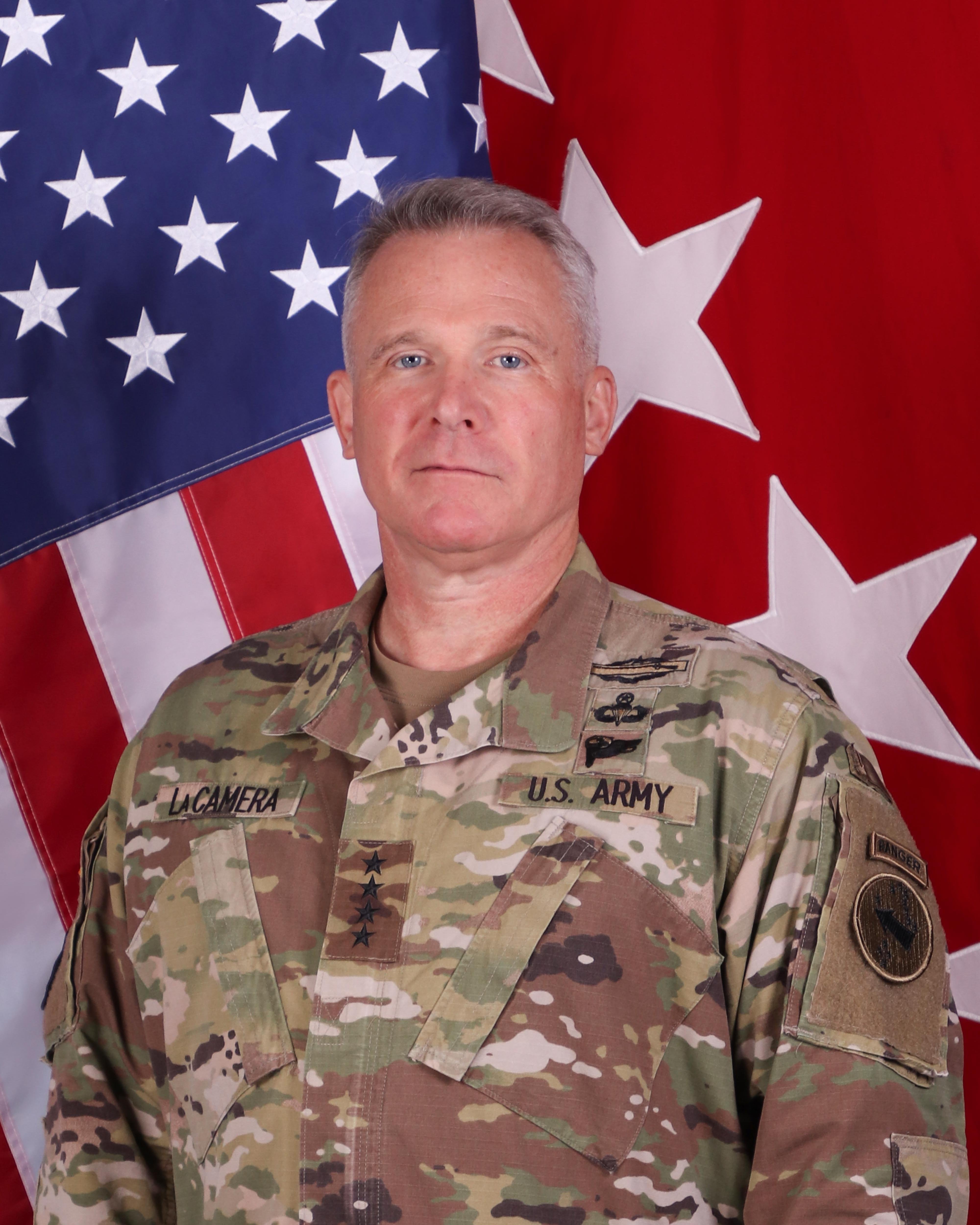 Newest portrait of GEN LaCamera